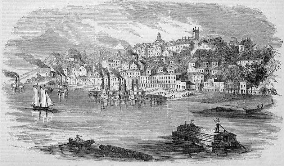 View of Vicksburg, Mississippi, 1855